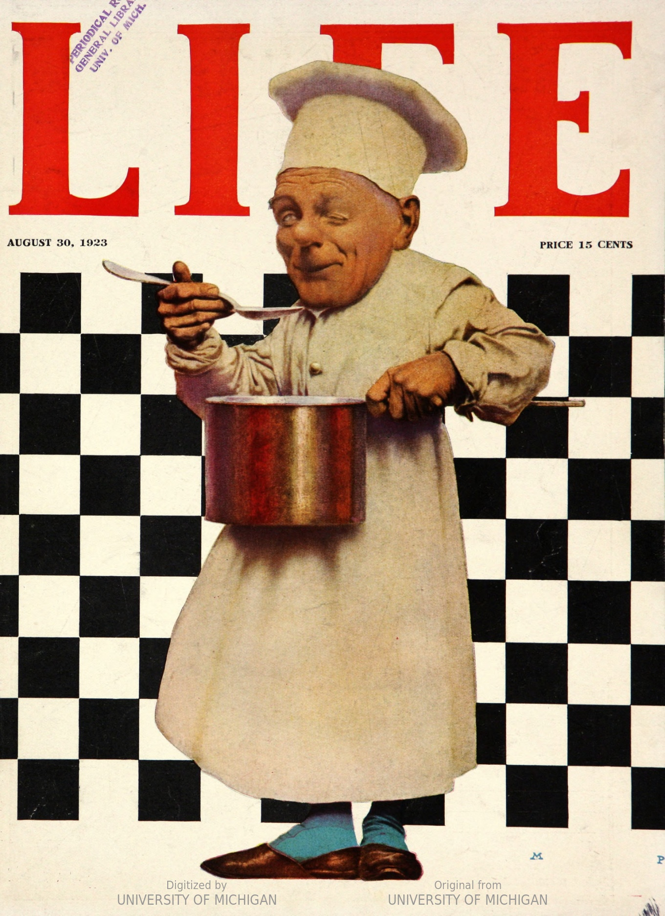 LIFE Magazine Cover (30 Aug 1923)